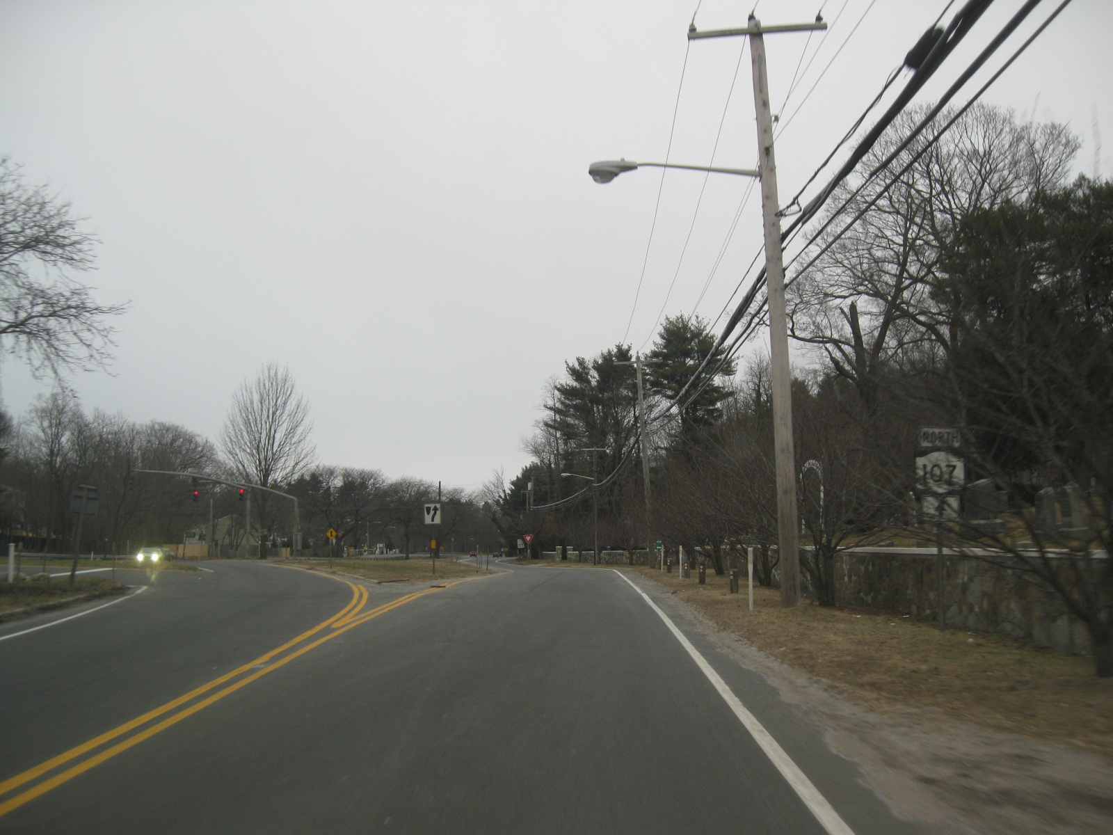 New York State Route 107 northbound approaching the junction with the Glen Cove Arterial Highway in Glen Head.